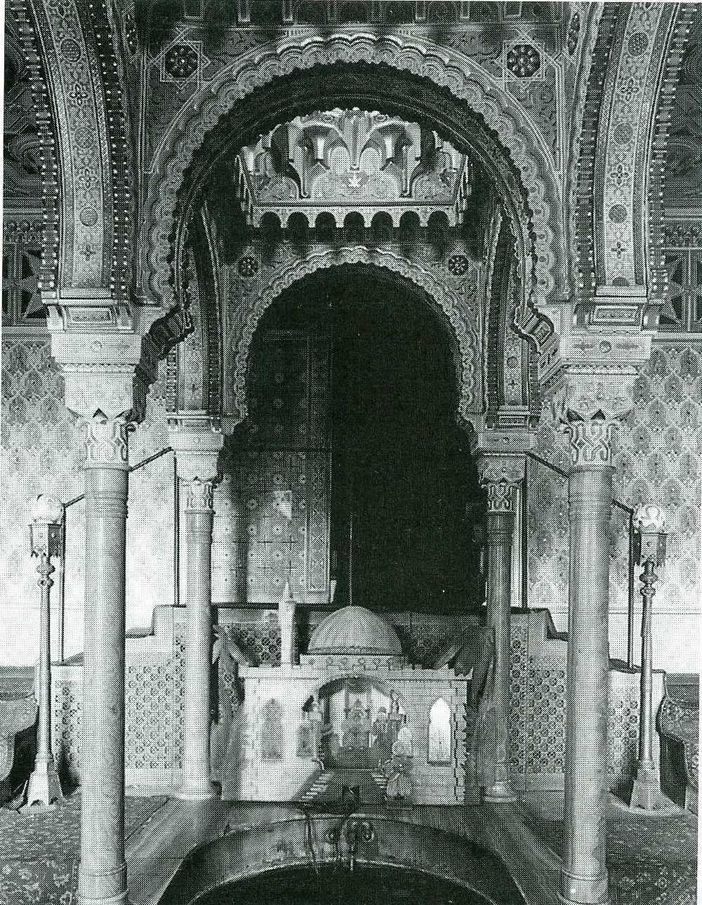 Bad Dresden